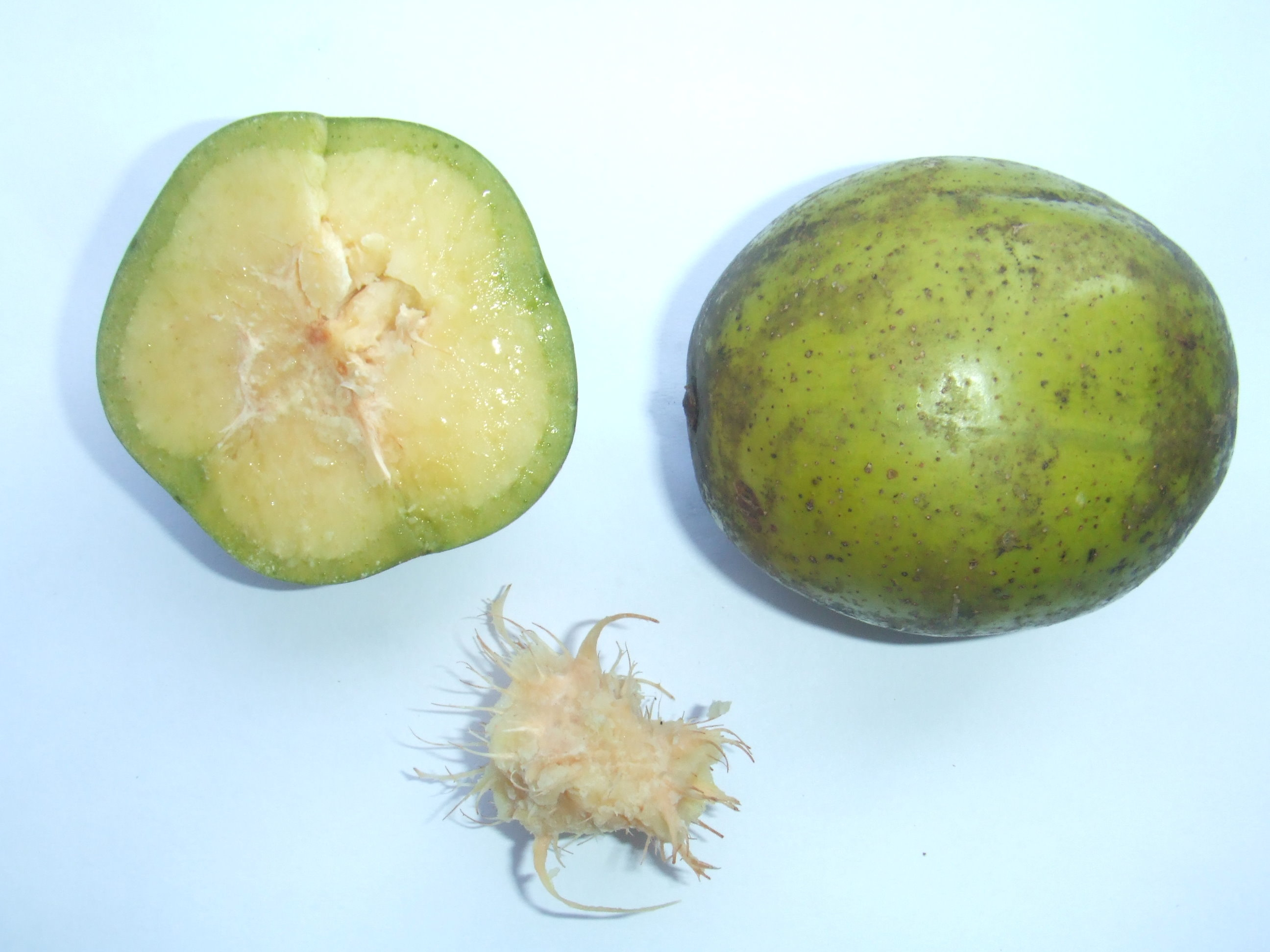 Spondias dulcis, bought at the Visserijplein market in Rotterdam, The Netherlands